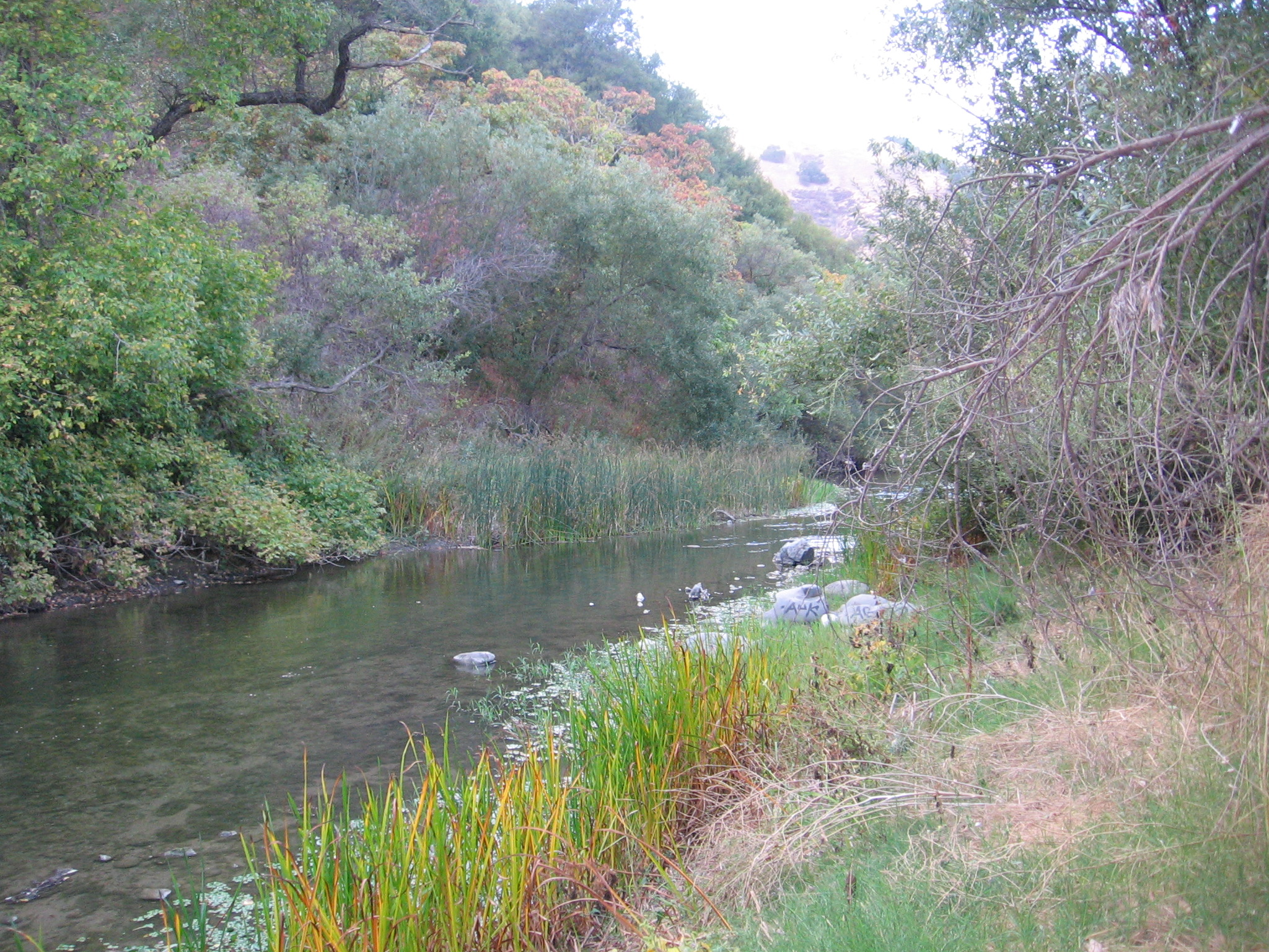 The Alameda Creek in Niles Canyon between Fremont and Sunol, California, USA.